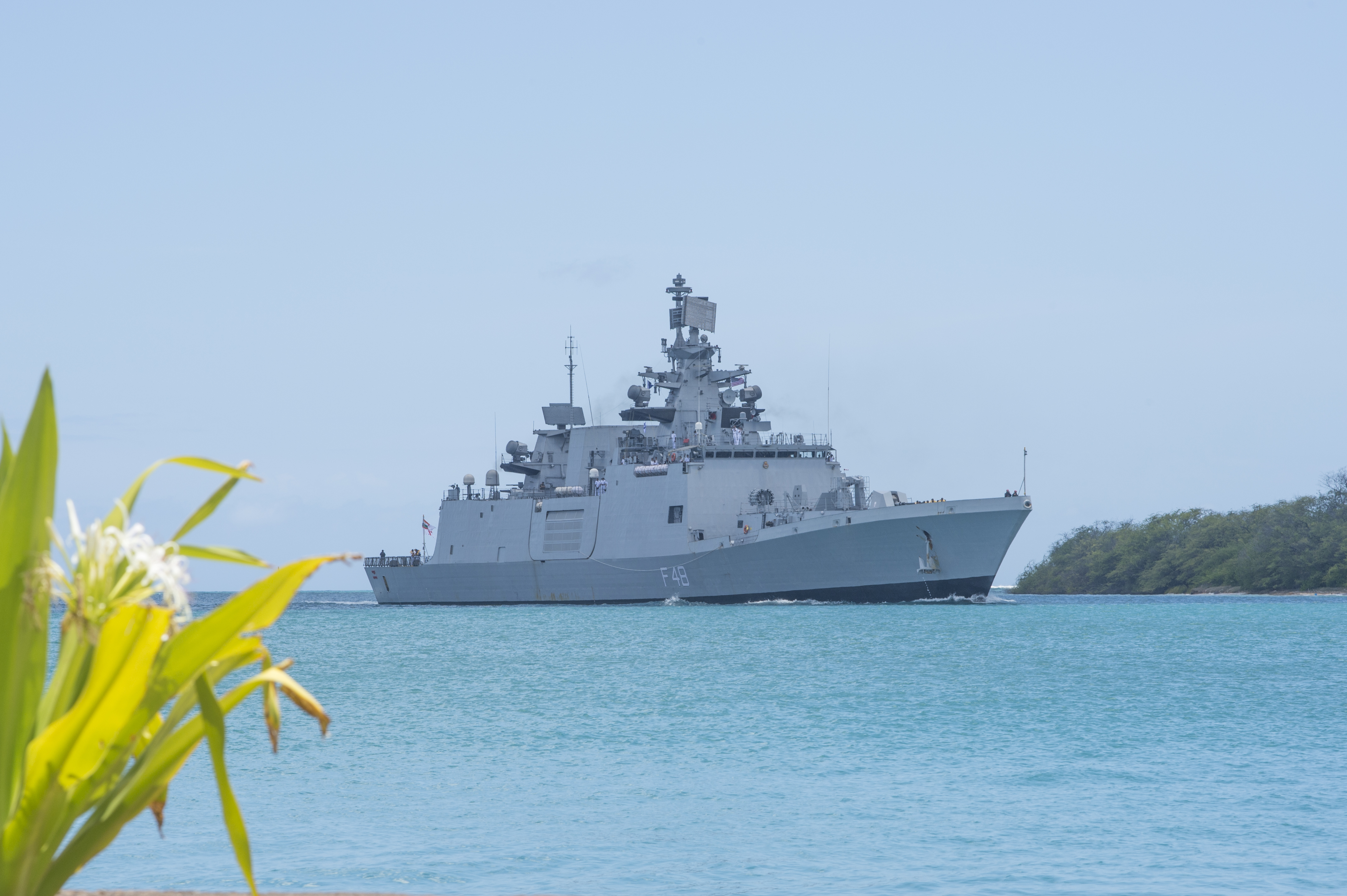 160630-N-IY142-206 PEARL HARBOR (June 30, 2016) Indian Navy frigate Satpura (F48) arrives at Joint Base Pearl Harbor-Hickam for Rim of the Pacific 2016. Twenty-six nations, more than 40 ships and submarines, more than 200 aircraft and 25,000 personnel are participating in RIMPAC from June 30 to Aug. 4, in and around the Hawaiian Islands and Southern California. The world's largest international maritime exercise, RIMPAC provides a unique training opportunity that helps participants foster and sustain the cooperative relationships that are critical to ensuring the safety of sea lanes and security on the world's oceans. RIMPAC 2016 is the 25th exercise in the series that began in 1971. (U.S. Navy Photo By Mass Communication Specialist 1st Class John Herman/Released)